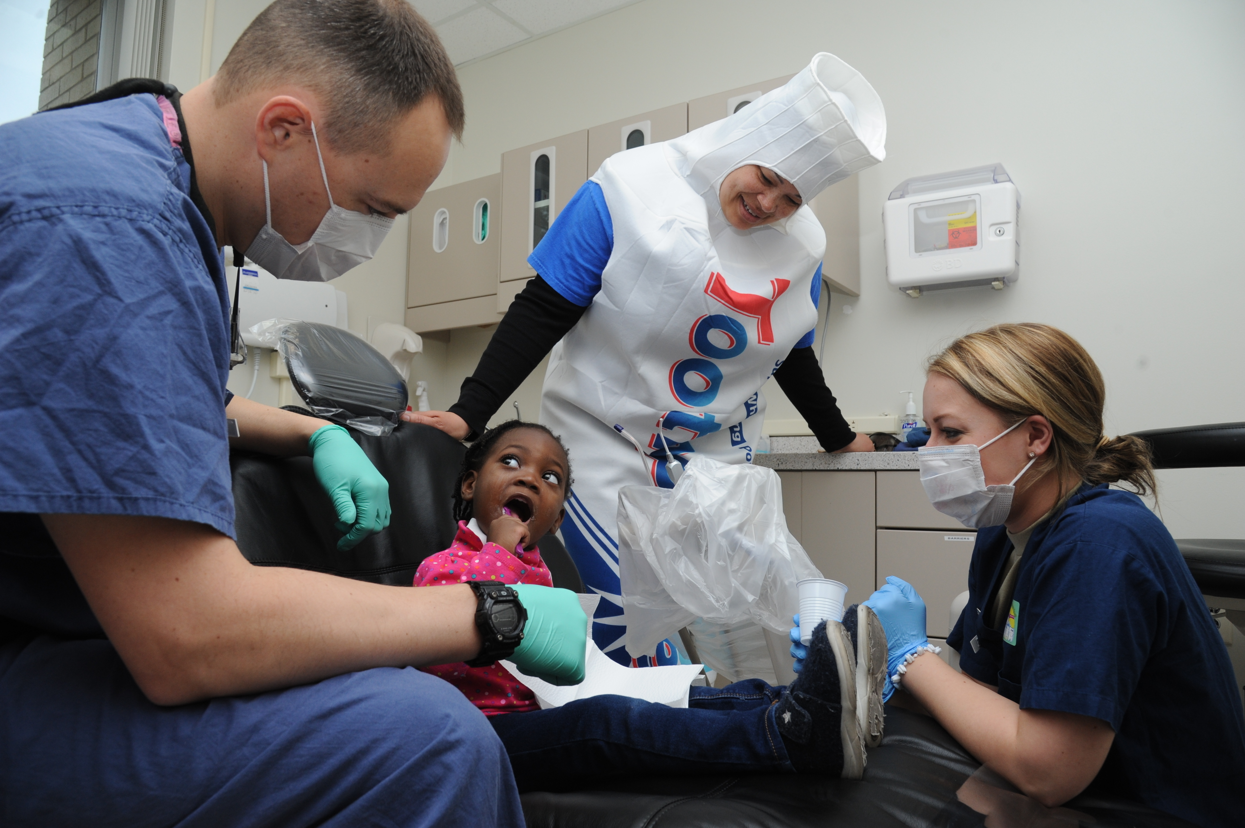 Gabriella Cox brushes her teeth as Capt. (Dr.) Rob Wake, 81st Dental Squadron advanced education in general dentistry resident, Felicia Haper, 81st DS dental assistant, and Airman 1st Class Jessica Jarosz, 81st DS dental assistant, watch during the 5th annual Give Kids a Smile Day Feb. 25, 2015, at the dental clinic, Keesler Air Force Base, Miss. The clinic provided approximately $14,000 in care at the free screening. The event included dental exams and cleanings for children two and older. Gabriella is the daughter of Airman 1st Class Darryl Cox, 334th Training Squadron student. (U.S. Air Force photo by Kemberly Groue/Released)